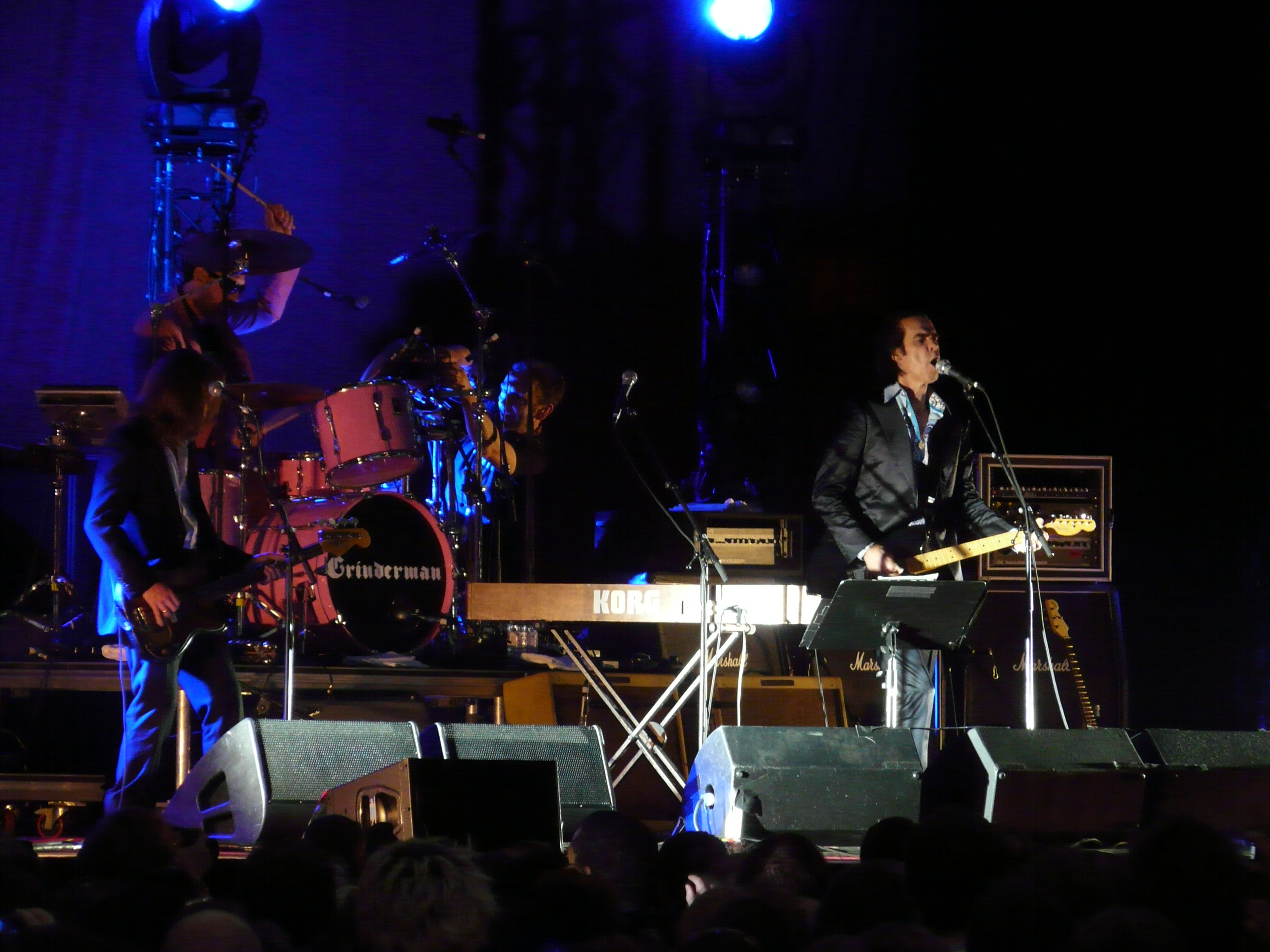 Alternative rock band Grinderman performing in London, United Kingdom.